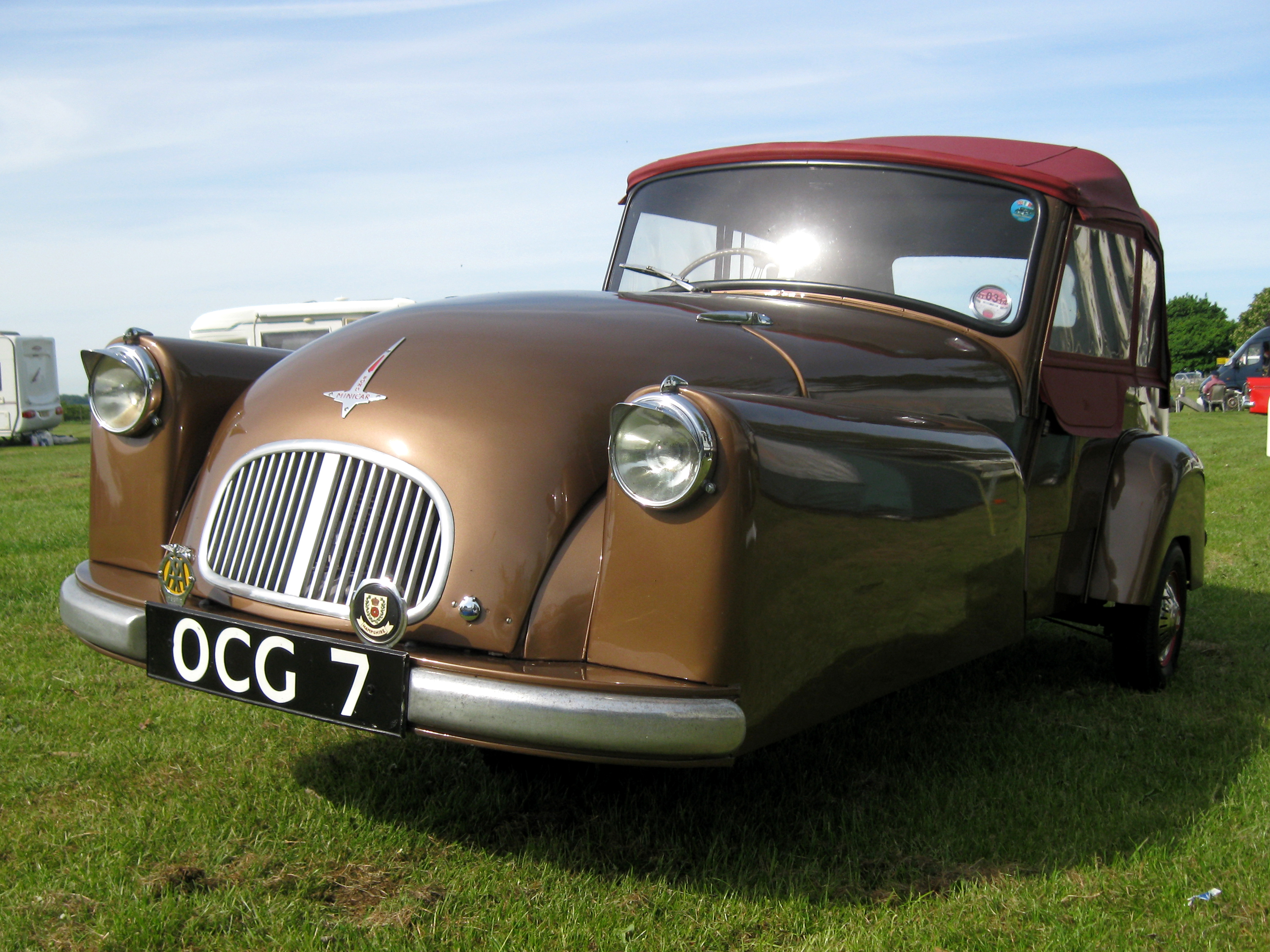 A 1955 Bond Minicar Mark C Family Safety Model, at the Bond Owners Club National Rally at the National Water Sports Centre, Holme Pierrepont, Nottingham